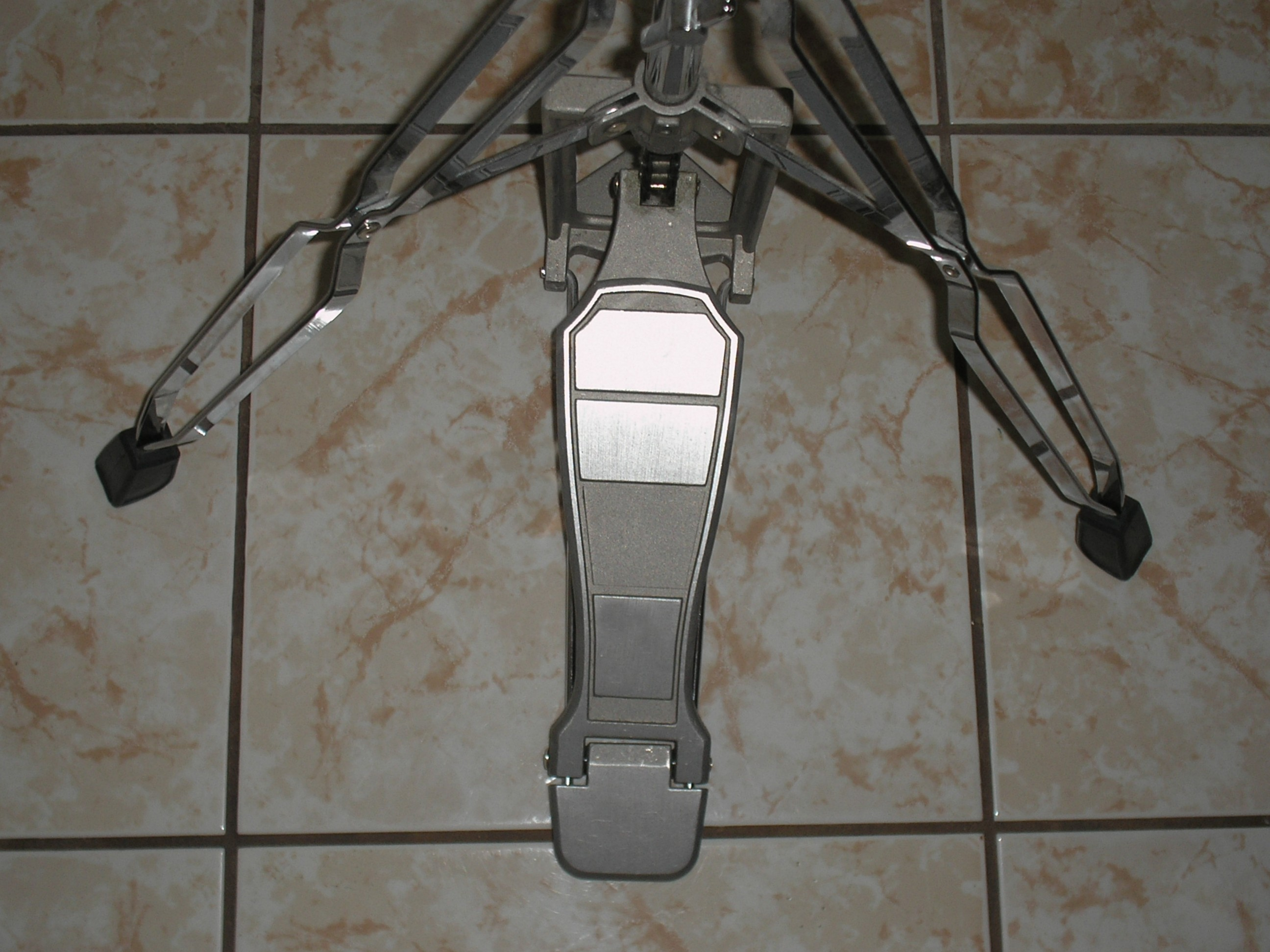 Hi-Hat Pedal taken from a drum kit Drum Kit